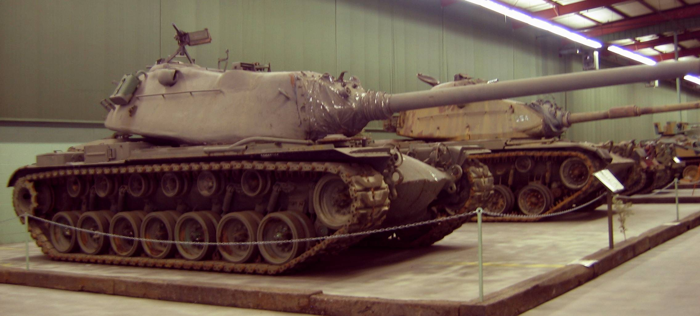 M103 (M103A2) and M60 tanks in the American Armored Foundation Museum